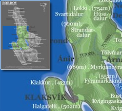 Image created by me from Image:Bordoy map.jpg which is in the public domain because it was released by the copyright holder Postverk Føroya - Philatelic Office.